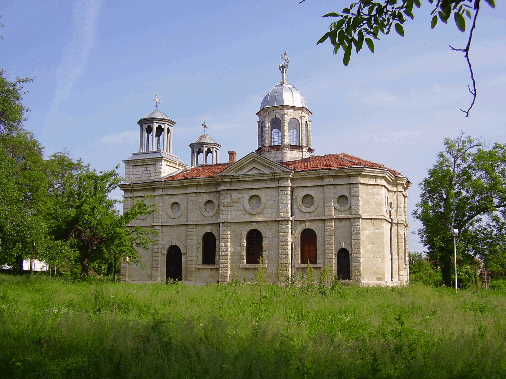 Church-Presentation of Mary (1899), Varbitsa, Pleven, Bulgaria